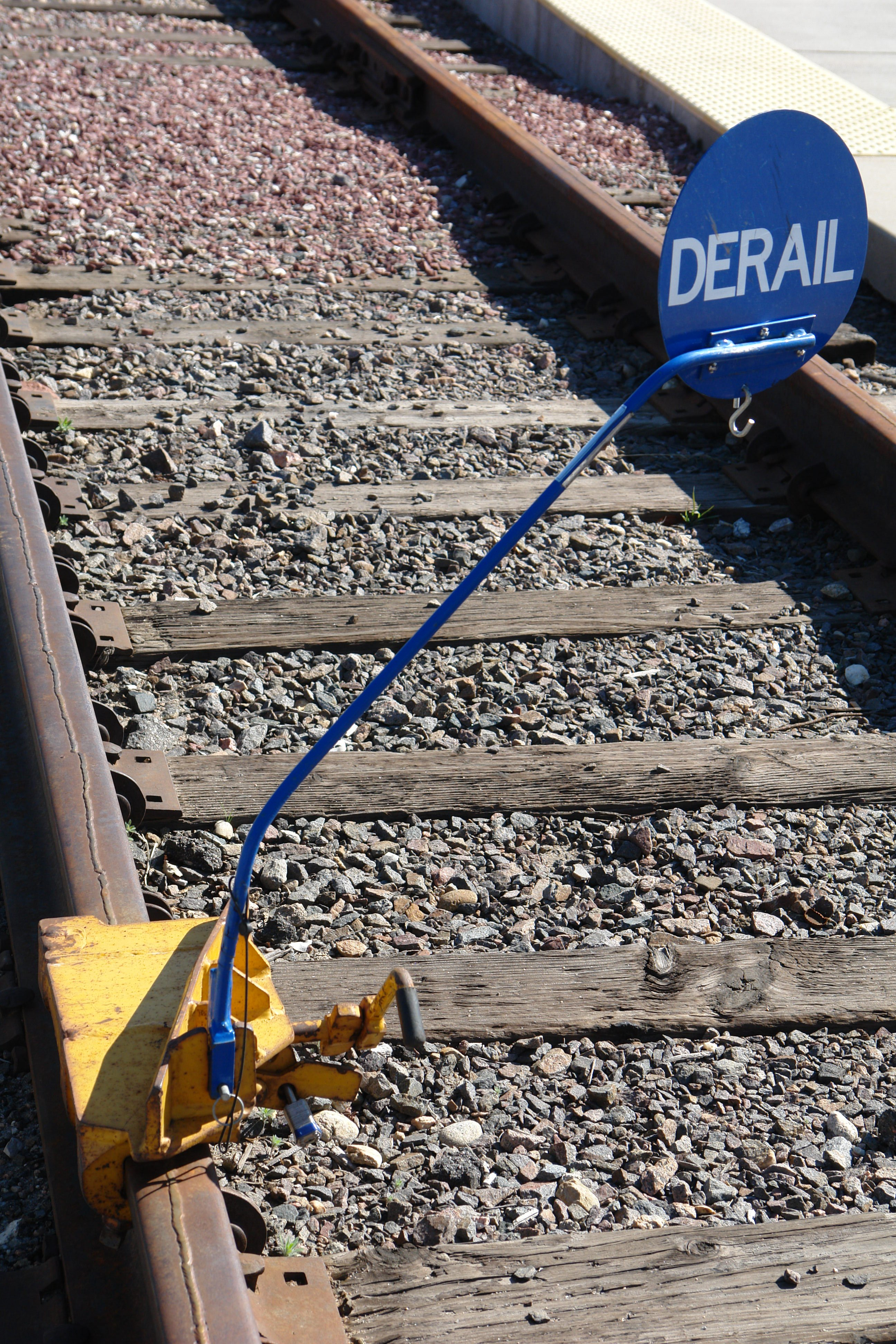 A portable derail set up to protect a construction area.